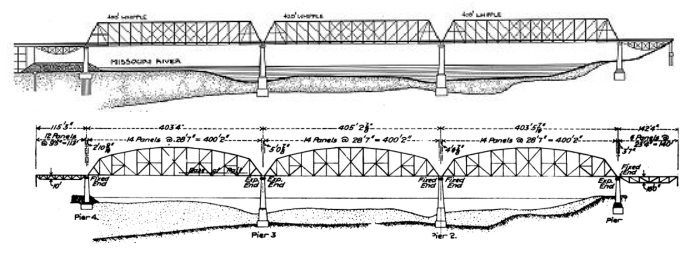 Plan and Elevation of the first an scond Bismarck Bridge from 1882 and 1905